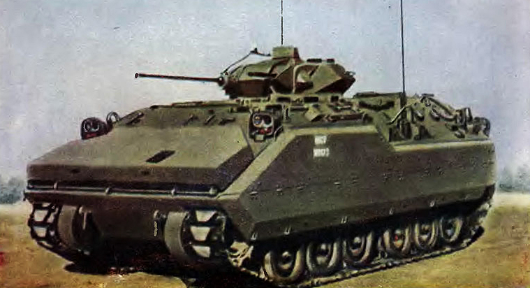 XM723 MICV-70 Prototype